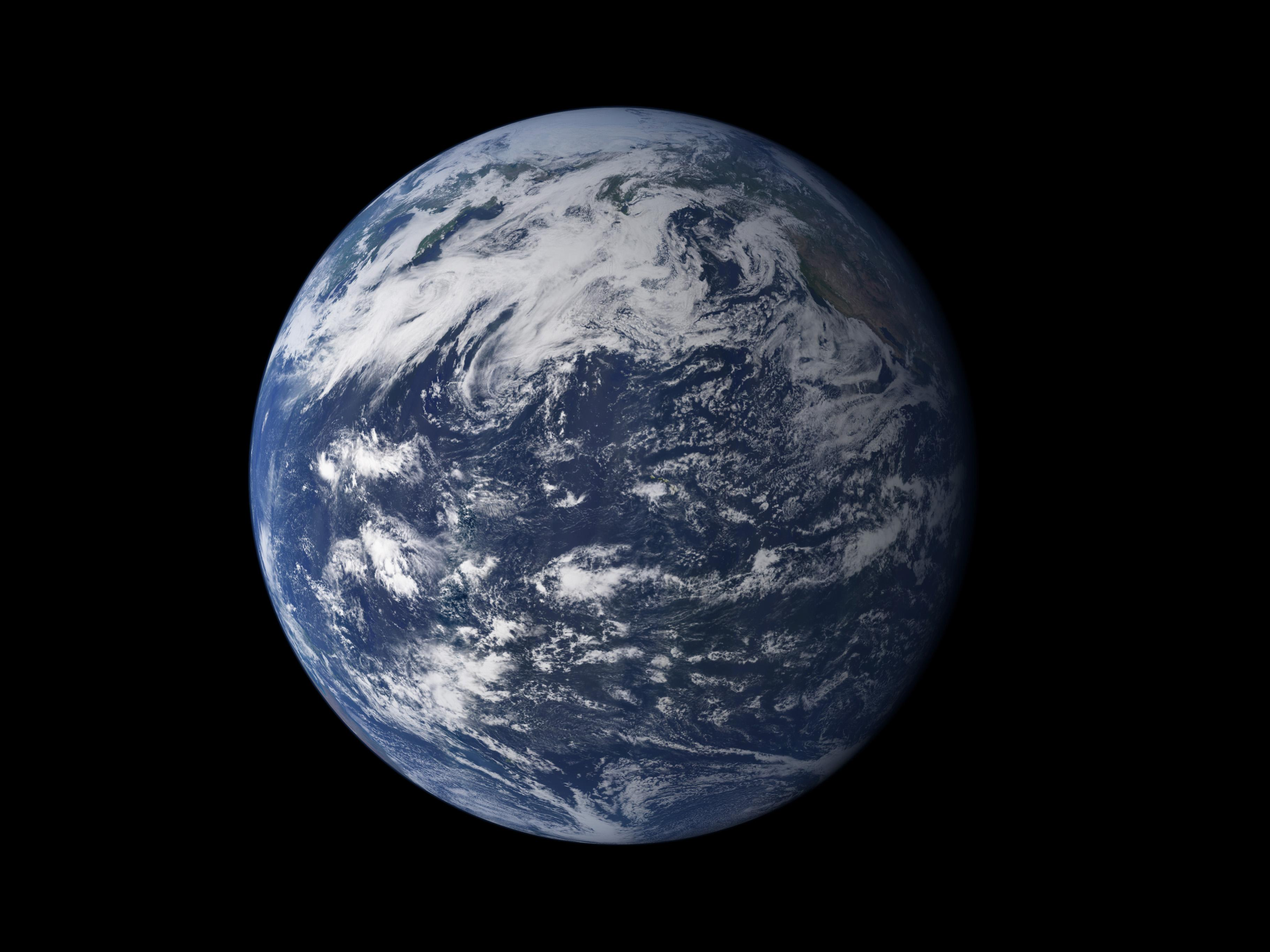 This detailed, photo-like view of Earth is based largely on observations from MODIS, the Moderate Resolution Imaging Spectroradiometer, on NASA's Terra satellite.